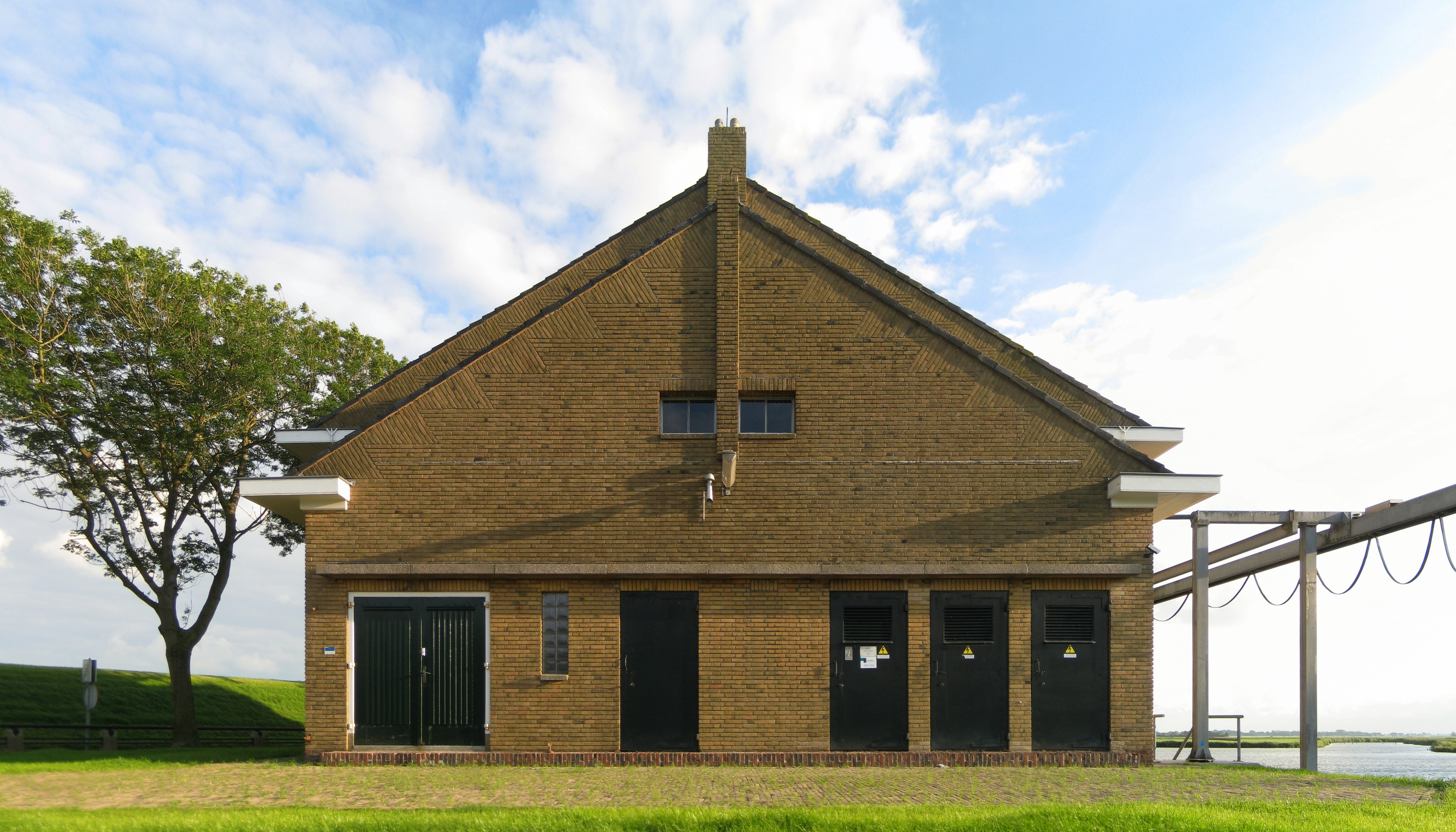 De Dongerdielen (1931), a pumping station in Iezumasyl, a hamlet in the Dutch province of Fryslân.